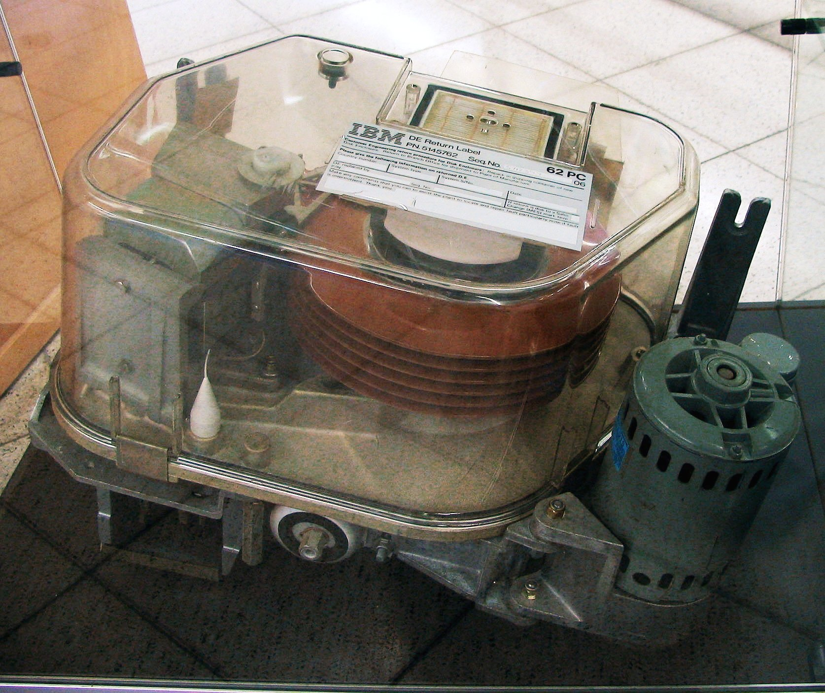 Old IBM Hard Disk Drive. Image's Gamma values modified